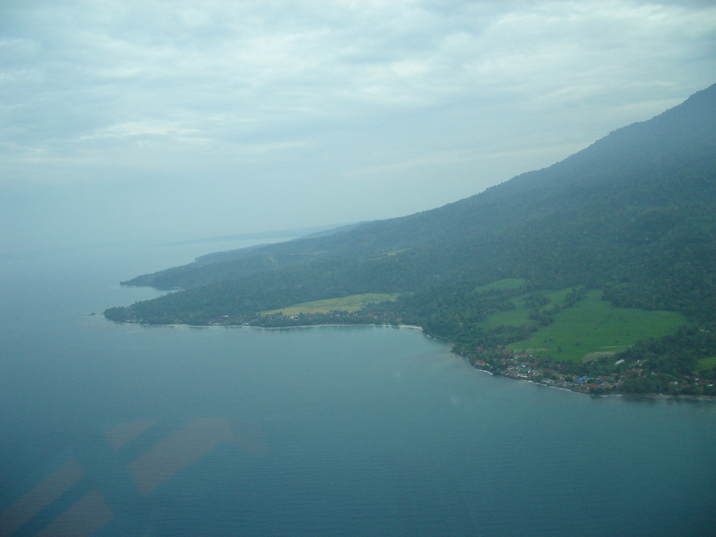 Another part of Halmahera Island, Indonesia